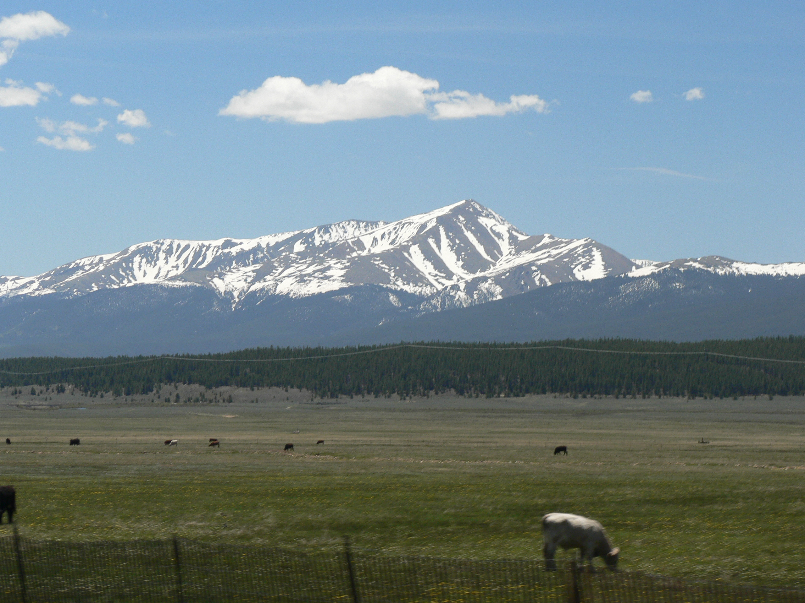 Mount Elbert, Colorado, United States